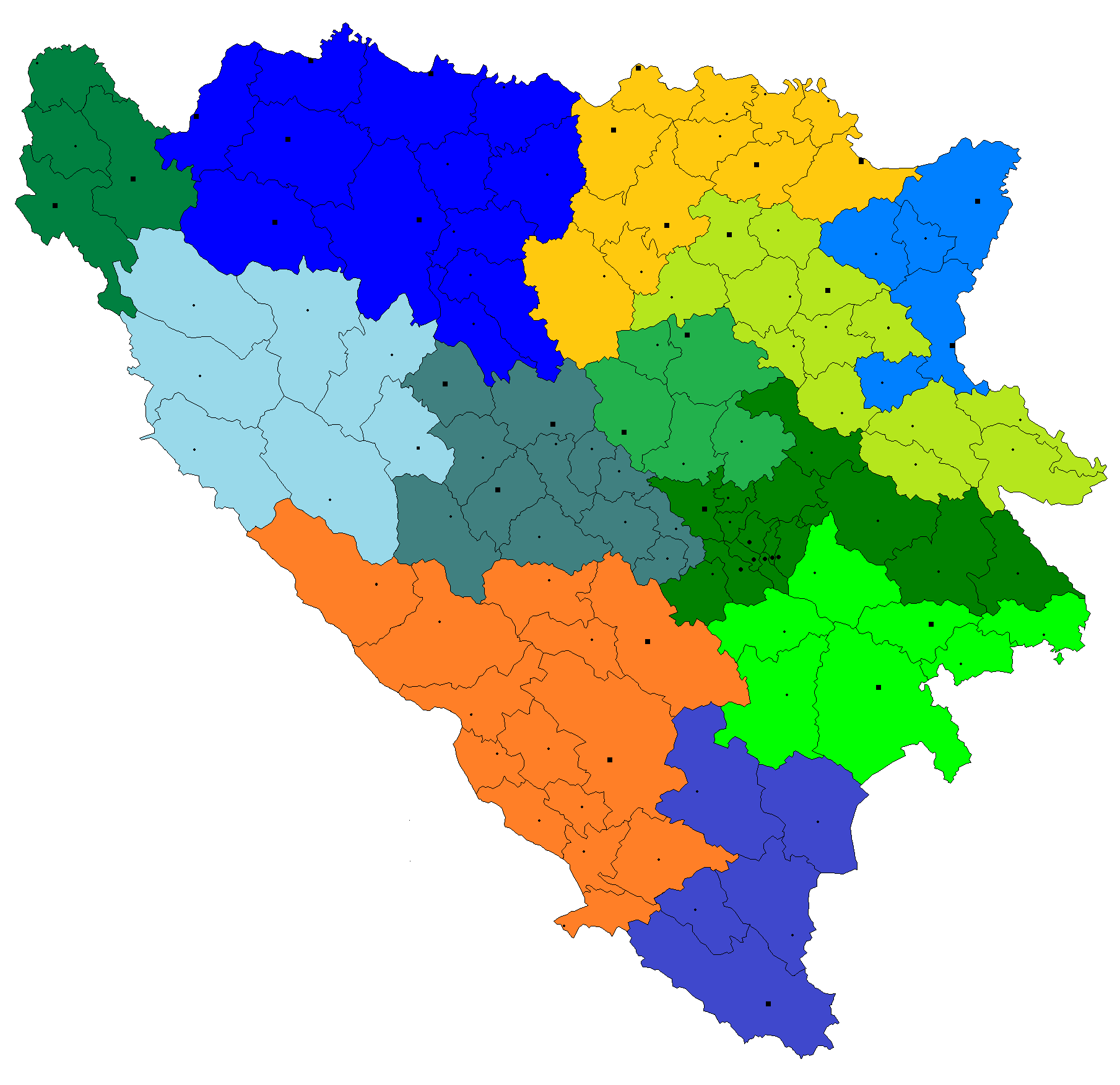 The joint HDZ-SDA cantonisation proposal of August 1992.